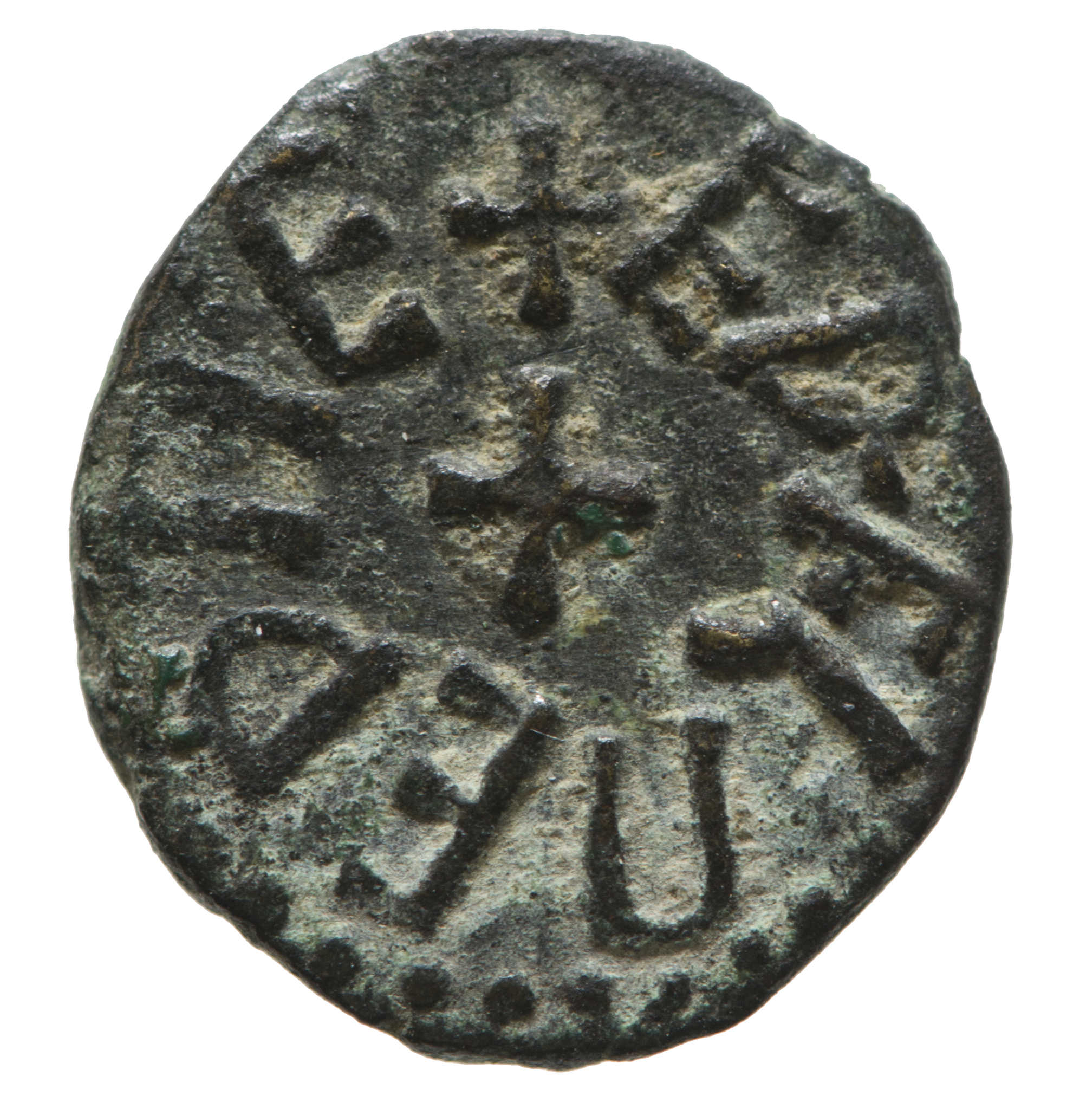 Obverse (front) of a copper alloy styca of Æthelred_II_of_Northumbria Cross